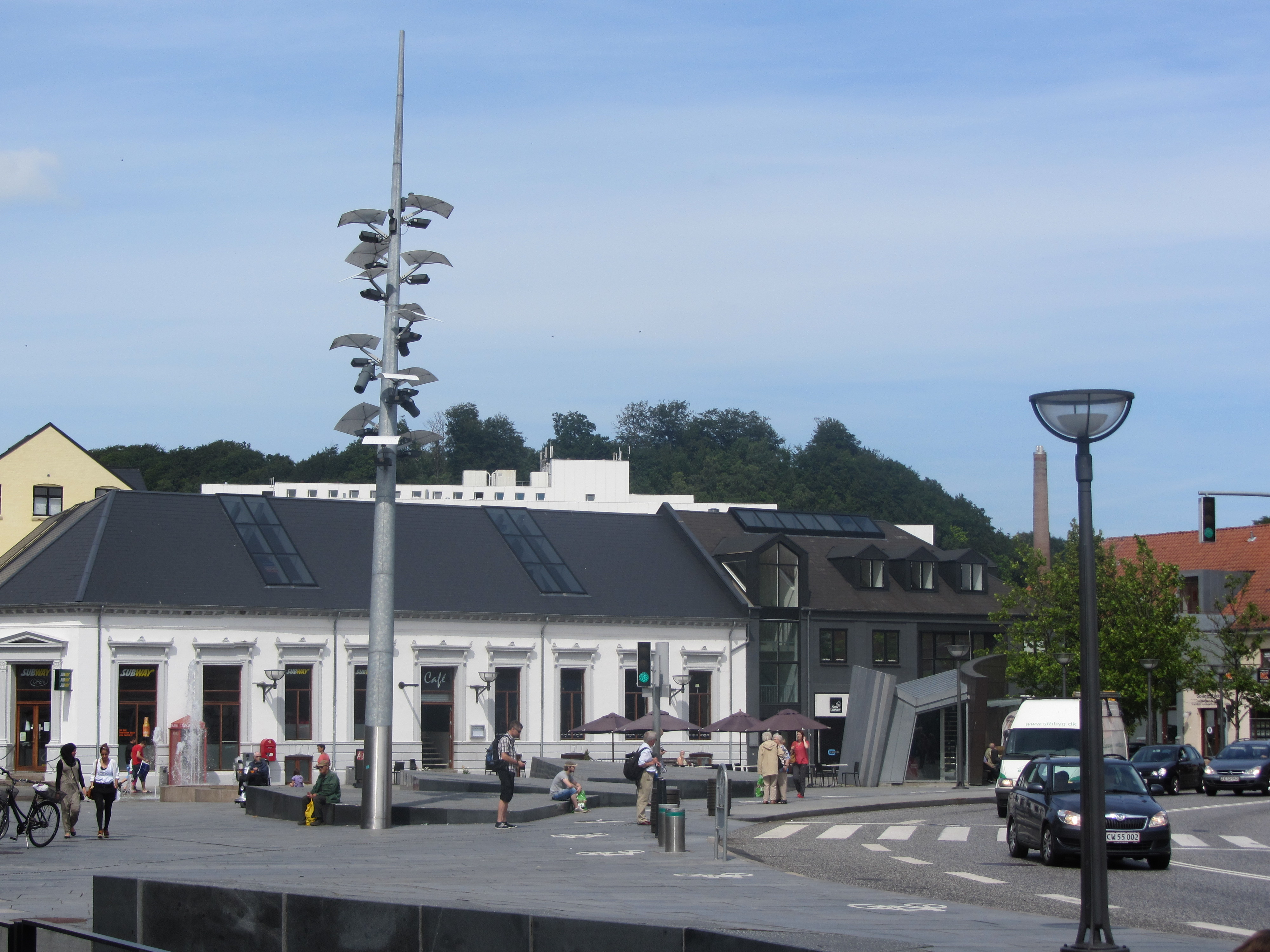 Nørretorv in Vejle, Denmark